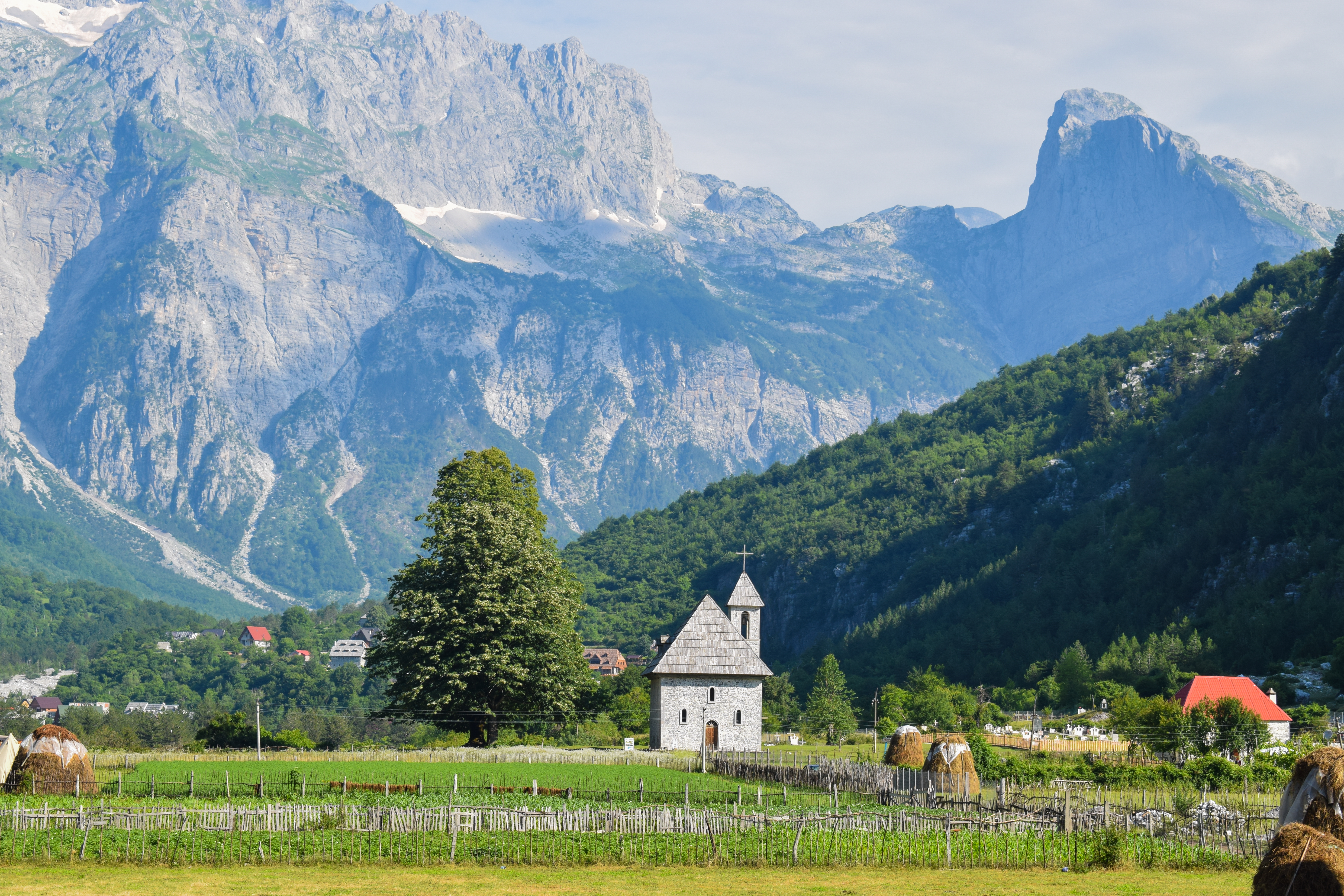 Church of Theth